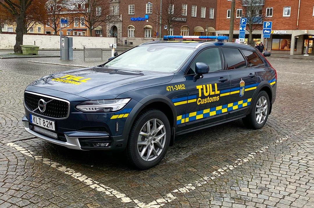 Tull v90